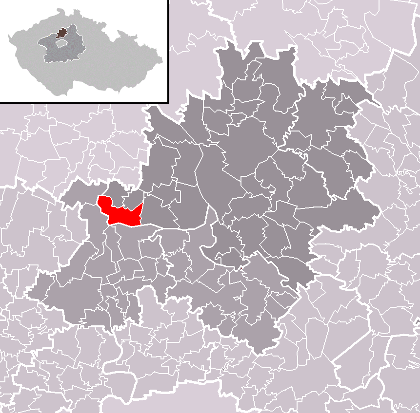 Location of Vraňany municipality within Mělník District and administrative area of Mělník as a Municipality with Extended Competence.